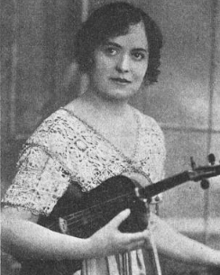 A young white woman with short dark hair, wearing a lace dress and holding a violin.